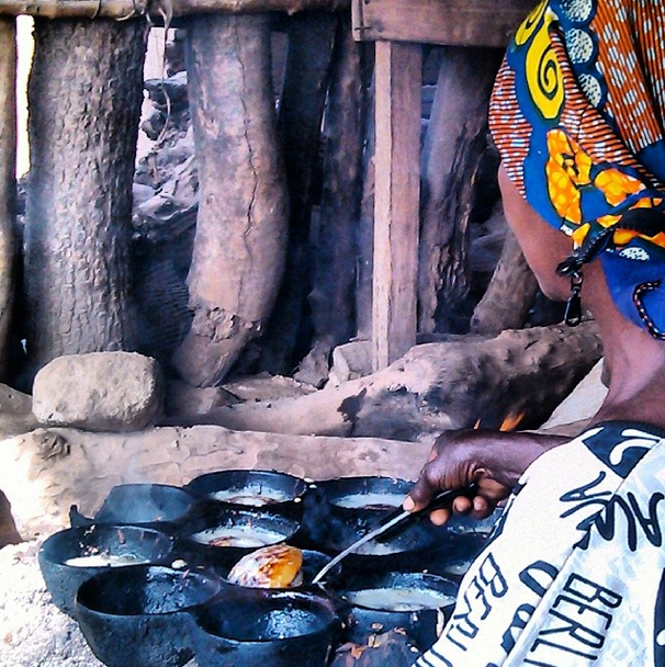 This is an image of woman from Bongo, Upper East Region, Ghana, preparing a very popular pancake called Maasa. Maasa is basically a fermented millet based fried pancake which is prepared through a process called Nixtamalization. Maasa is a sweet cake common in all hausa communities in West Africa especially in Ghana and is best served with Hausa Kooko (Porridge) as breakfast. This is an image of food from Ghana